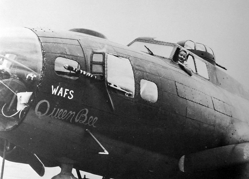 Nancy Love in a B-17. Love is known for becoming the first woman to be certified to fly the Boeing B-17 Flying Fortress as well as the Douglas C-54 Skymaster, North American B-25 Mitchell, and several other military aircraft. By June 1943, as Director of of the Women's Auxiliary Ferry Squadron (WAFS) Love was commanding four different squadrons of WAFS at Love Field,Texas; New Castle, Del.; Romulus, Mich., and Long Beach, Calif. The WAFS merged with the Women's Flying Training Detachment (WFTD) on August 5, 1943, creating the Women Airforce Service Pilots (WASP), and Love was placed in charge of all ferrying operations. In total, she was certified to fly 19 military aircraft. Love continued to work on reports detailing the work of the Air Transport Command after the WASPs were disbanded in 1944. After the creation of the United States Air Force, Love was awarded the rank of lieutenant colonel in the U.S. Air Force Reserve in 1948. Weaving the Stories of Women's Lives: Lt. Col. Nancy H. Love